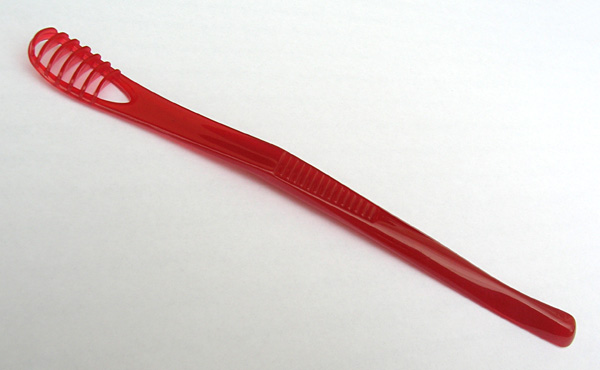 Example of an Ergonomic Tongue Cleaner